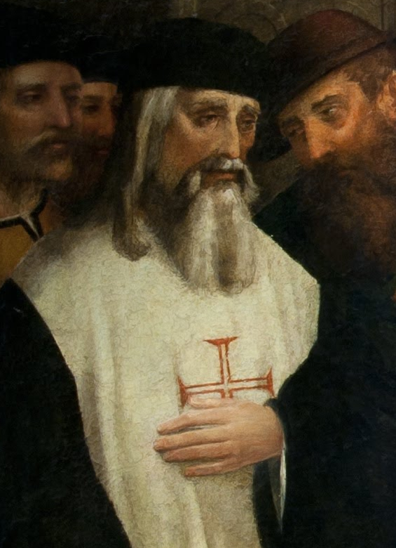 "Wedding of Saint Alexis" (1541), by Garcia Fernandes. This painting was, for a long time, identified as featuring the third marriage of King Manuel I of Portugal with Eleanor of Austria.